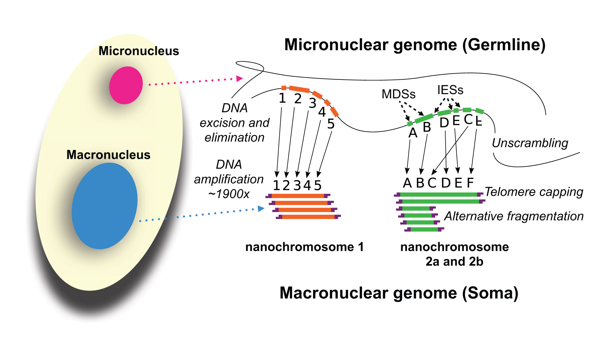 Development of the Oxytricha macronuclear genome from the micronuclear genome: During conjugation of Oxytricha cells, segments of the micronuclear genome (MDSs) are excised and stitched together to form the nanochromosomes of the new macronuclear genome, and the remainder of the micronuclear genome is eliminated (including the IESs interspersed between MDSs). The old macronuclear genome is also degraded during development. The segments that are stitched together may be either in order (e.g., forming nanochromosome 1, on the left) or out of order or inverted (e.g., forming the two forms of nanochromosome 2), in which case they need to be “unscrambled.” Two rounds of DNA amplification produce nanochromosomes at an average copy number of ~1,900. Alternative fragmentation of DNA during nanochromosome development may also occur, irrespective of unscrambling, giving rise to longer (2a) and shorter (2b) nanochromosome isoforms. The mature nanochromosomes are capped on both ends with telomeres.